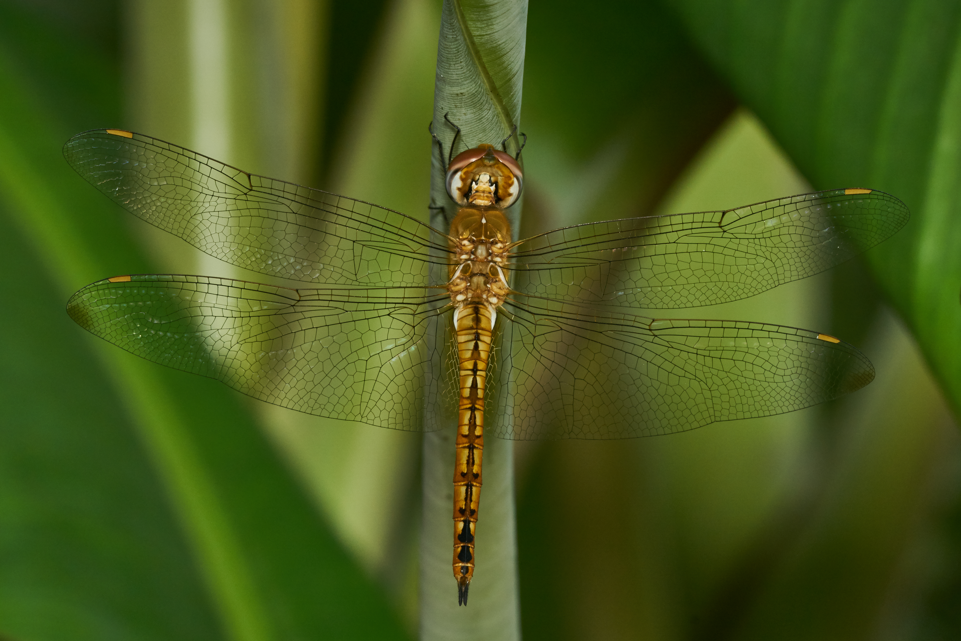 Pantala flavescens, Globe skimmer, Globe wanderer or Wandering glider, is a wide-ranging dragonfly of the family Libellulidae.